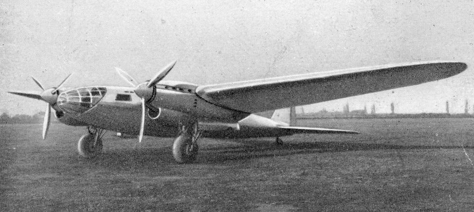 Amiot 370 photo from L'Aerophile February 1938